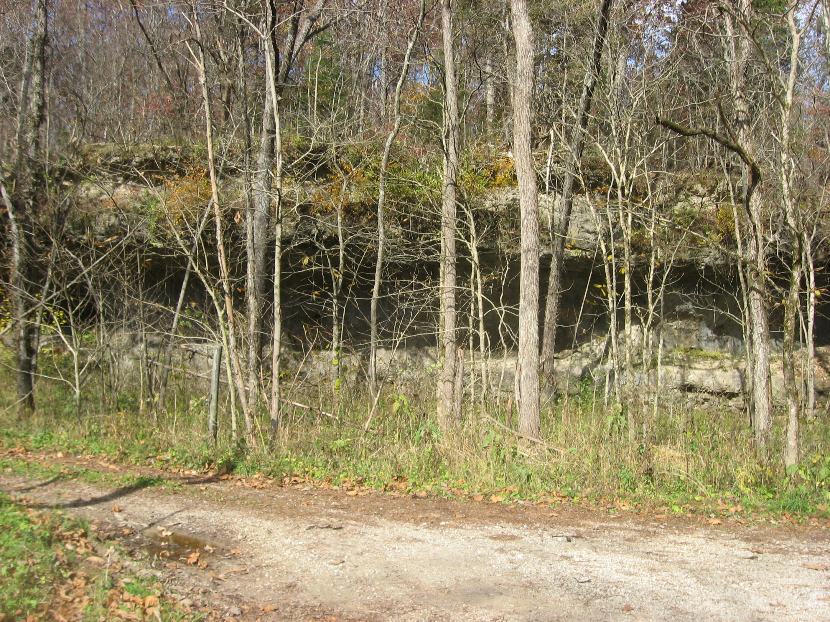 A large rockshelter located on the northern side of Bacon Flat Road northeast of Peebles in Franklin Township, Adams County, Ohio, United States.